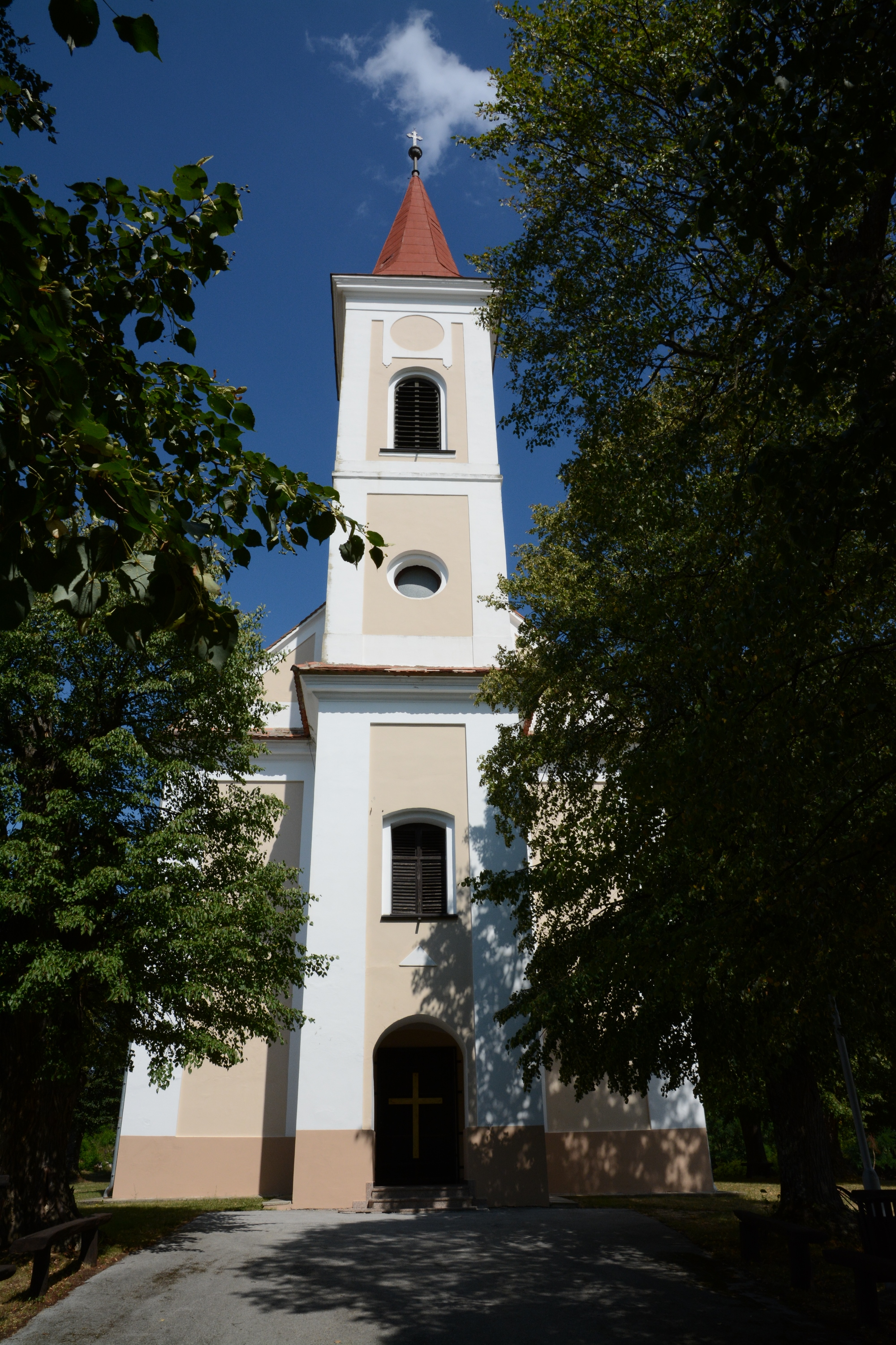 Church Hodoš